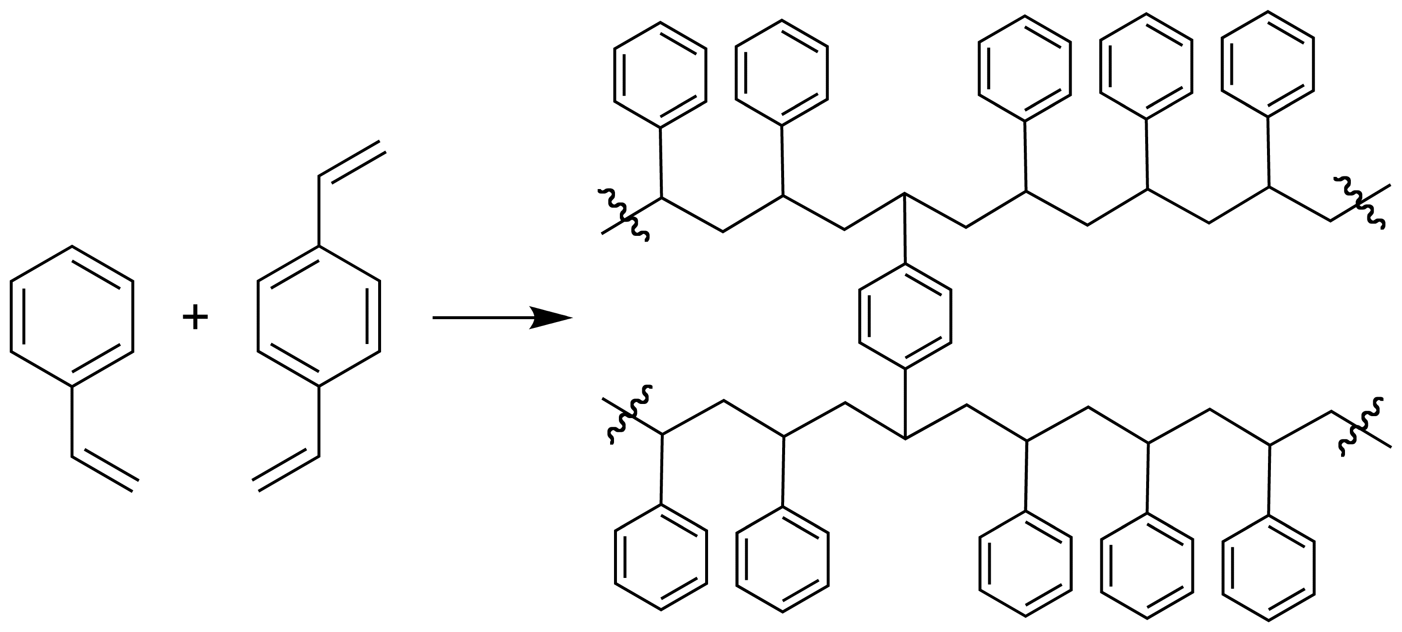 Skeletal structure for the polymerization of styrene cross-linked with divinylbenzene